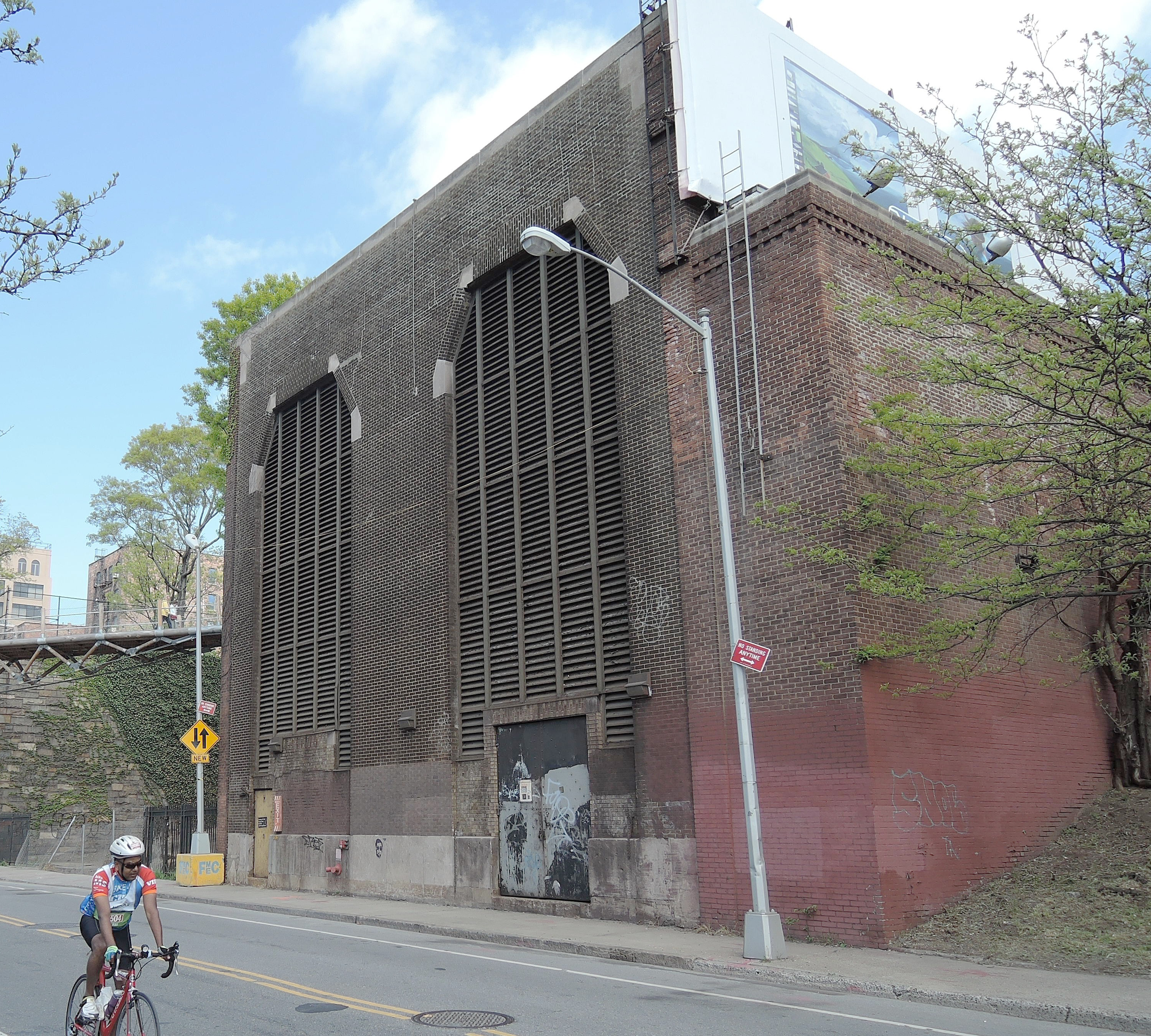 Looking northeast at ventilation building on Furman Street.